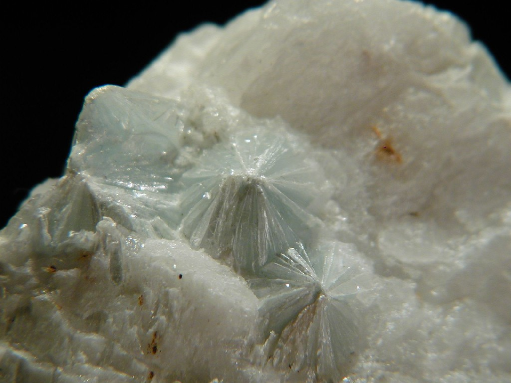 Pale green pyrophyllite on and in quartz (Picture size: 4 x 3 cm) Locality: St. Niklaus, Matt Valley, Zermatt - Saas Fee area, Wallis (Valais), Switzerland